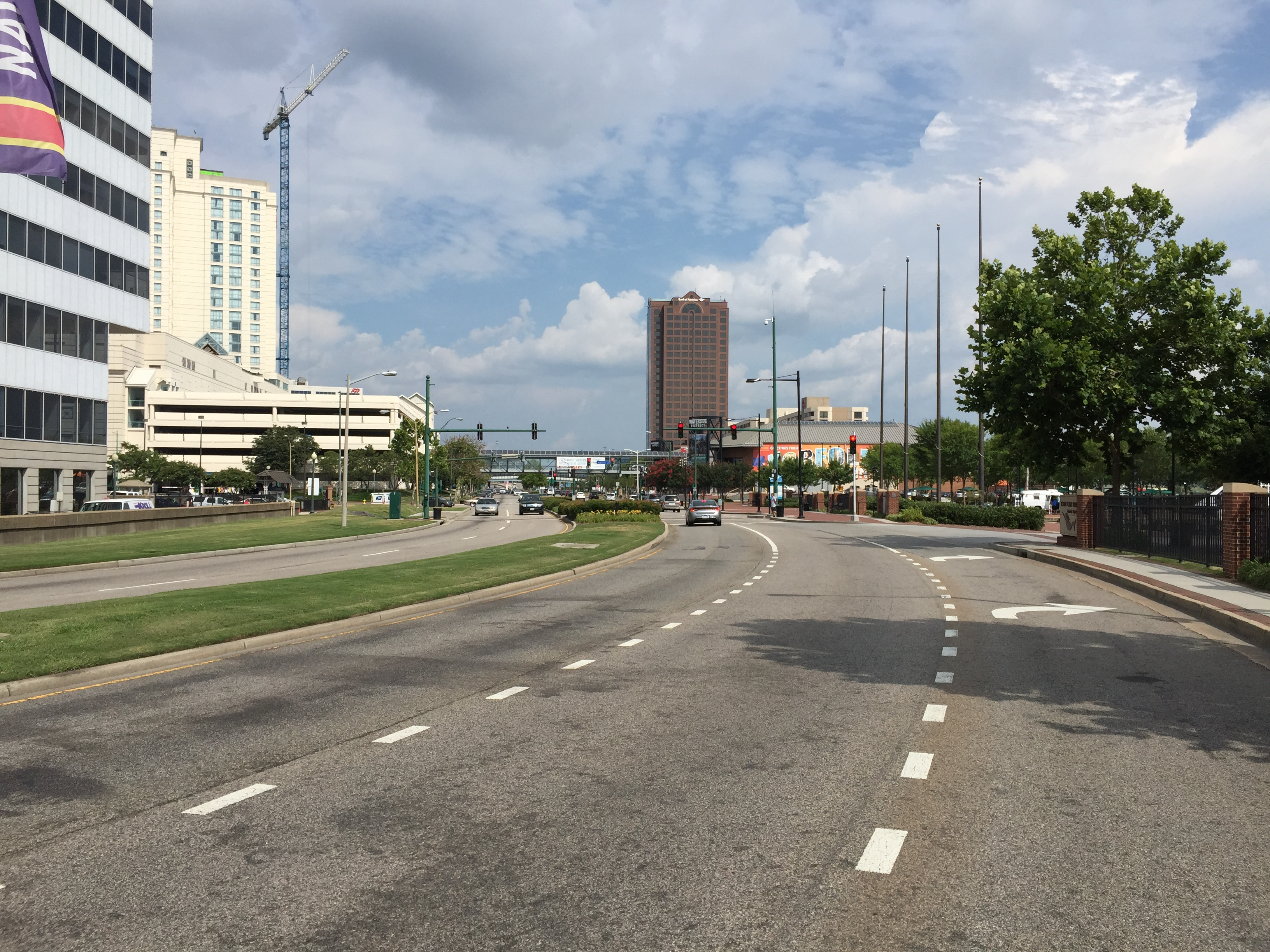 View south along Virginia State Route 337 Alternate (Waterside Drive) between Main Street and Martins Lane in Norfolk, Virginia